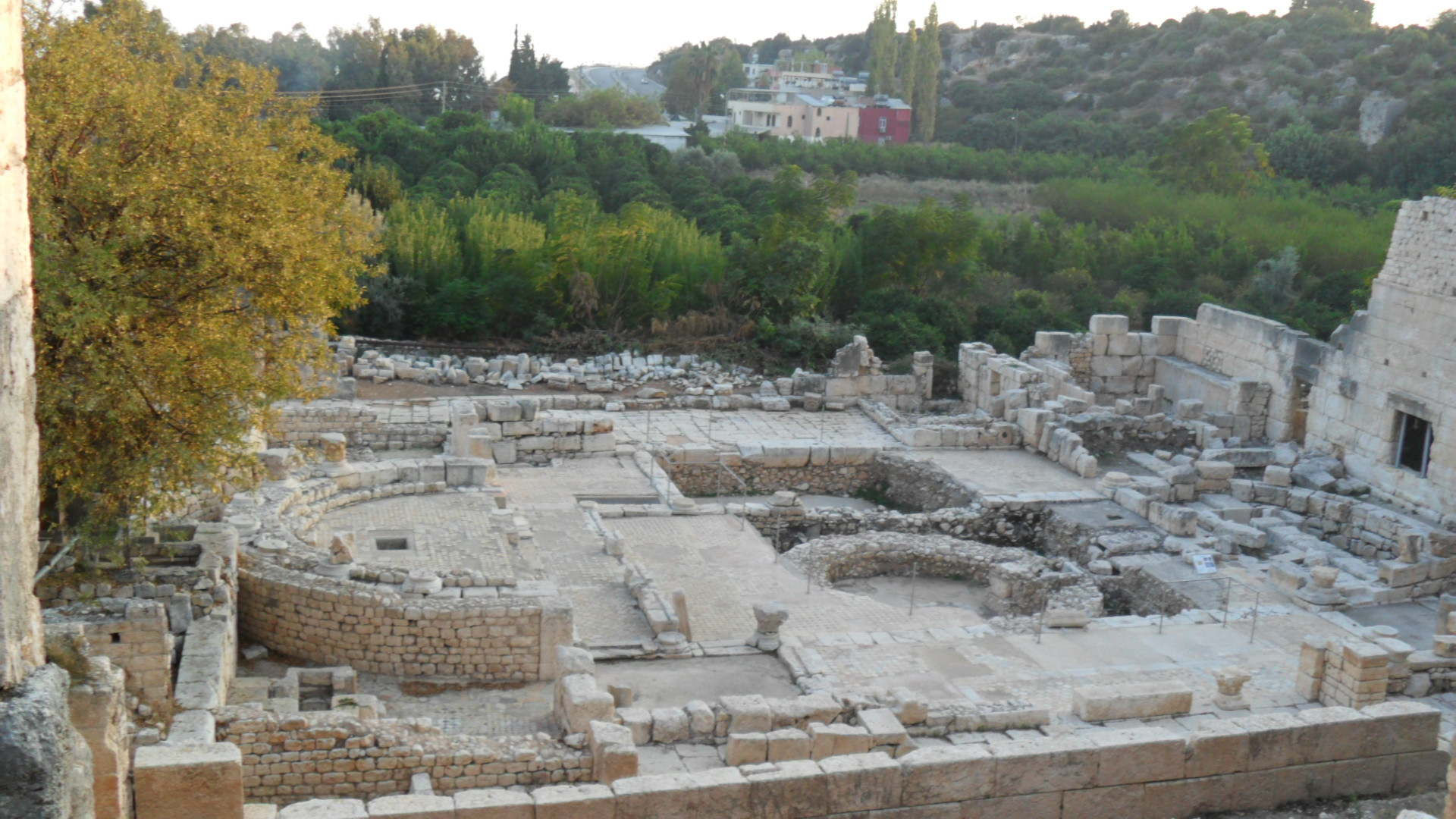 Ruins in Ayaş, Mersin